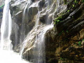 р